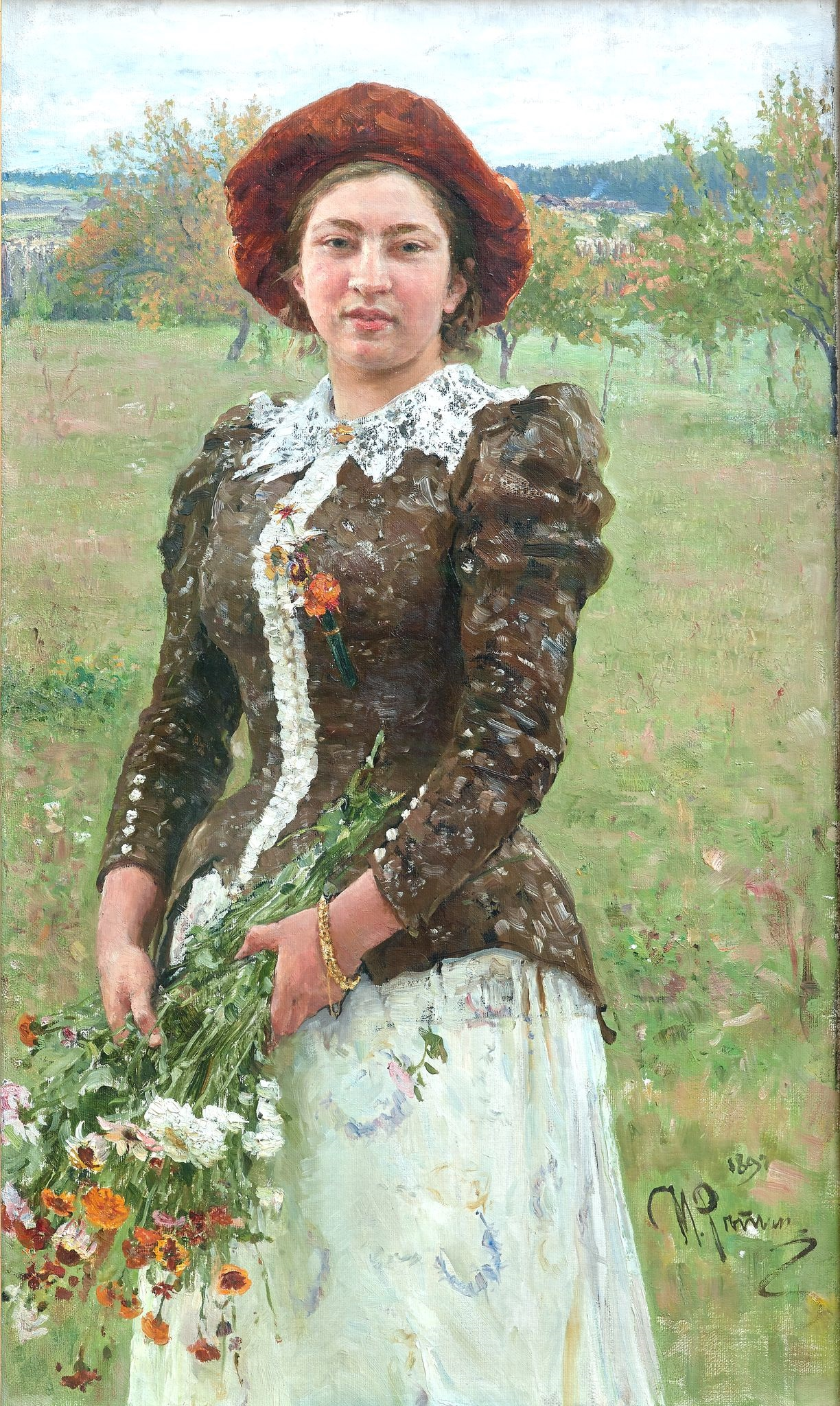 Autumn Bunch. Portrait of Vera Ilyinichna Repina, the Artist's Daughter